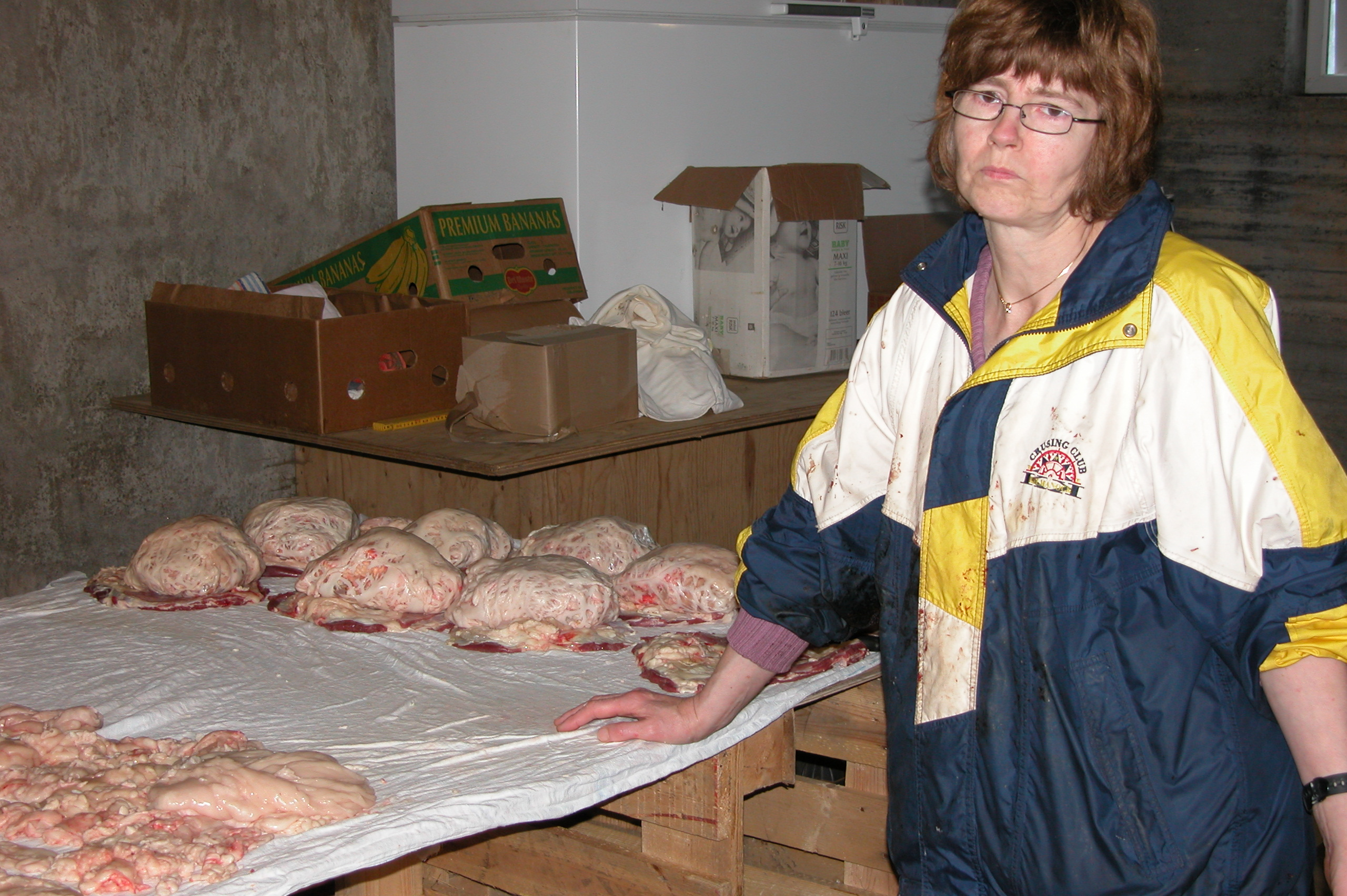 Garnatálg is a faroese speciality